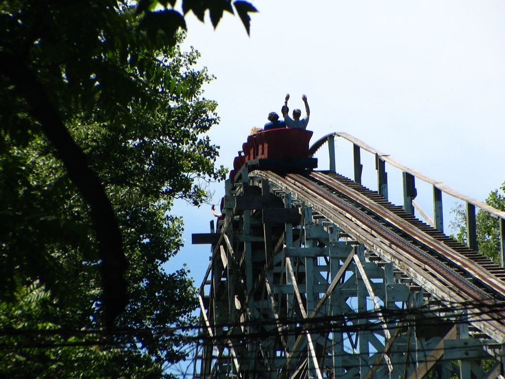 The Blue Streak at Conneaut Lake Park cresting its lift hill